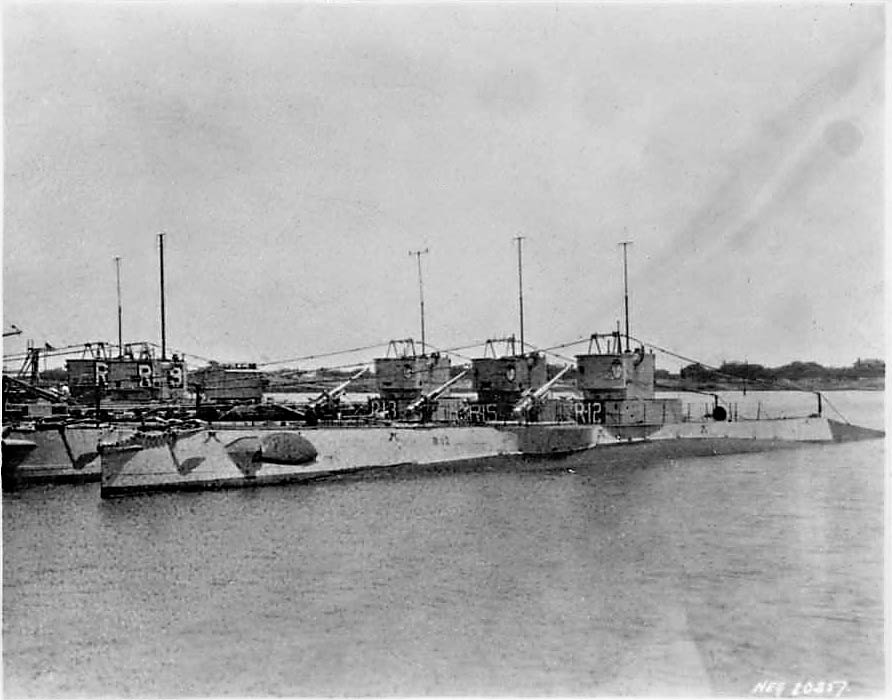 Source credit: US Navy photo # 19-N-10257, from the National Archives and Records Administration (NARA), courtesy of Daniel Dunham. Source description: Tied up along the dock from right to left: R-12 (SS-89), R-15 (SS-92), R-13 (SS-90) with R-9 (SS-86) and an unidentifed R-boat probably in Pearl Harbor, circa mid 1920's.